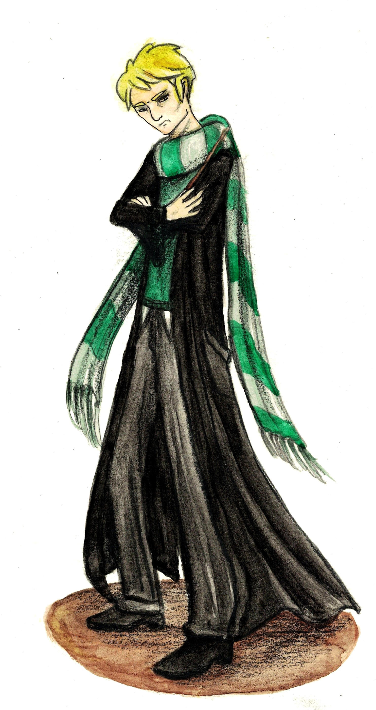 Fan art representing the character Draco Malfoy from the Harry Potter saga, made with charcoal and watercolours by Mademoiselle Ortie aka Elodie Tihange. This drawing is not affected by any copyright infringement. See the discussion that previously decided on its conservation.